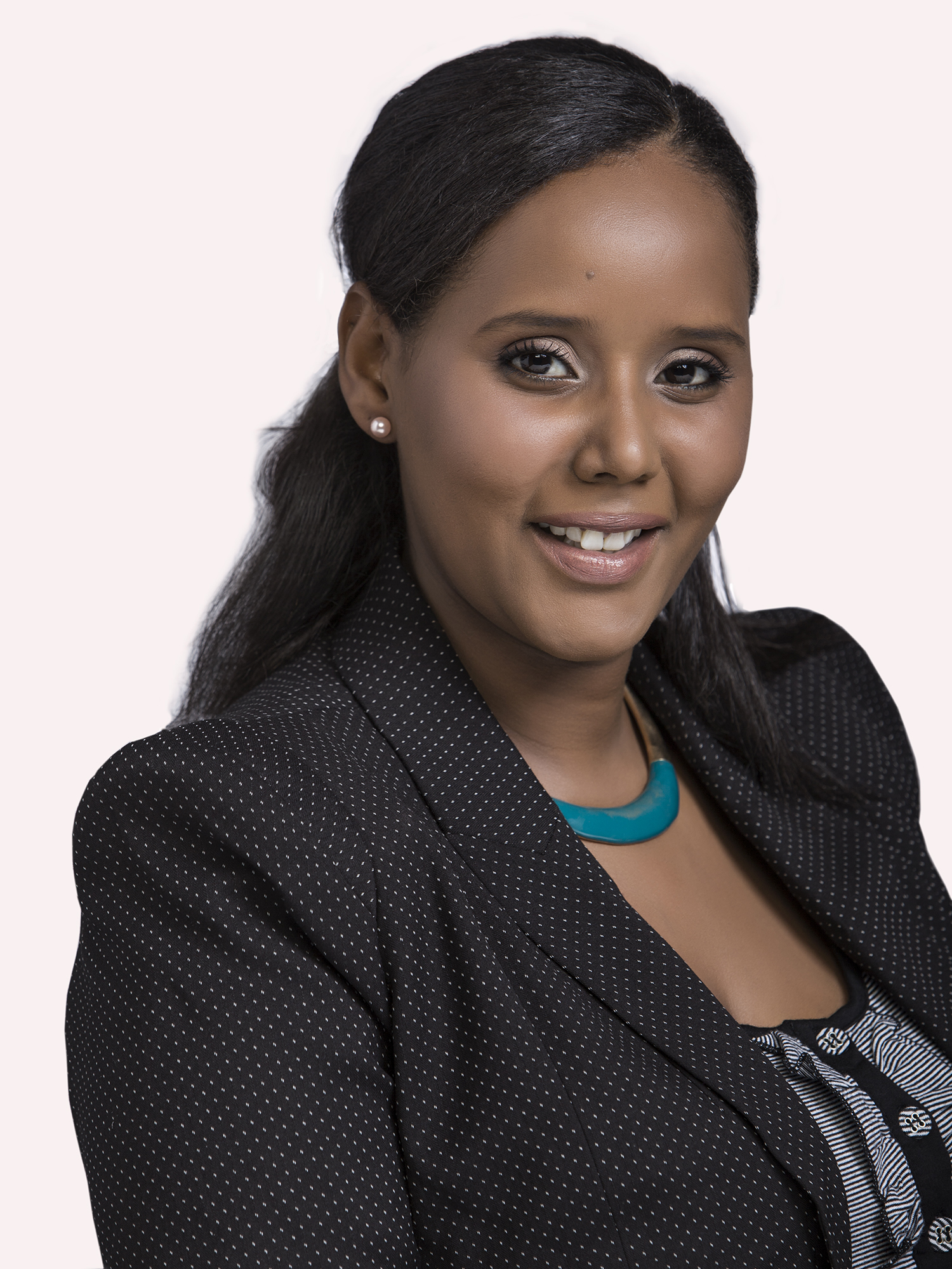 Pnina Tamano-Shata